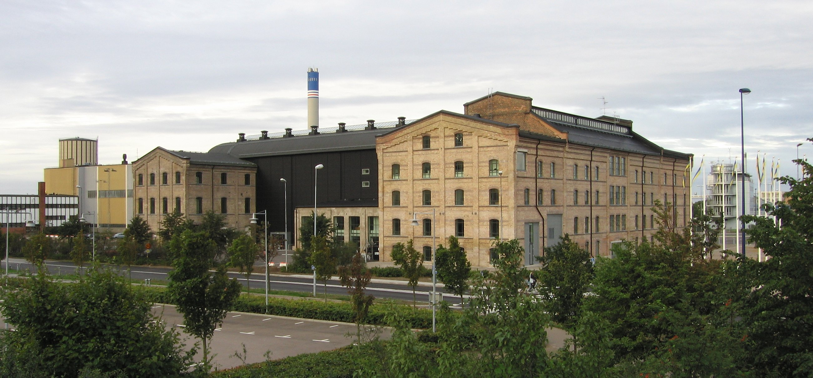 Former sugar factory (sockerbruket) in Helsingborg, Sweden. Also former office building of Ikea.